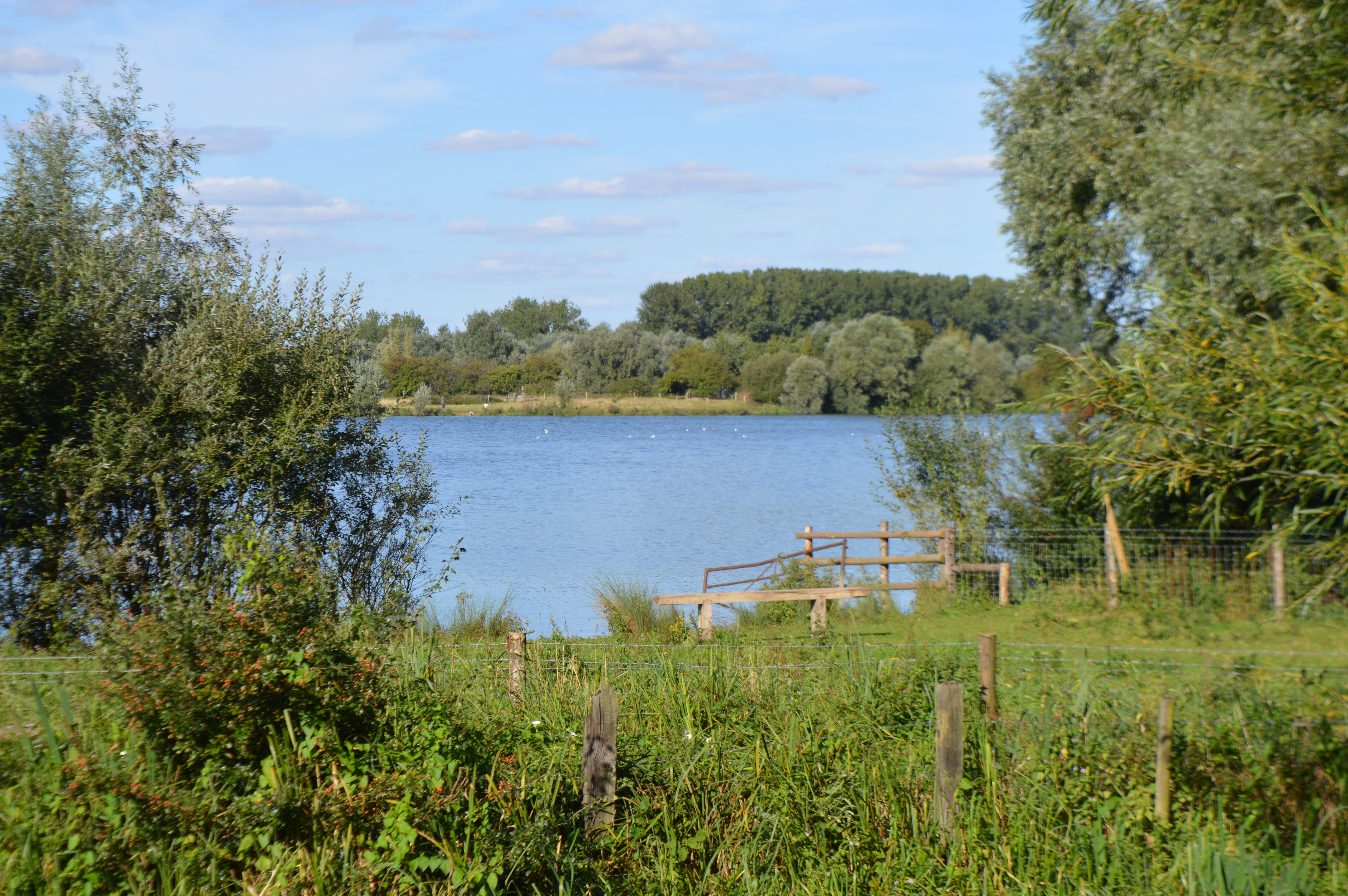 Godmanchester Nature Reserve near Godmanchester in Cambridgeshire is managed by the Wildlife Trust for Bedfordshire, Cambridgeshire and Northamptonshire